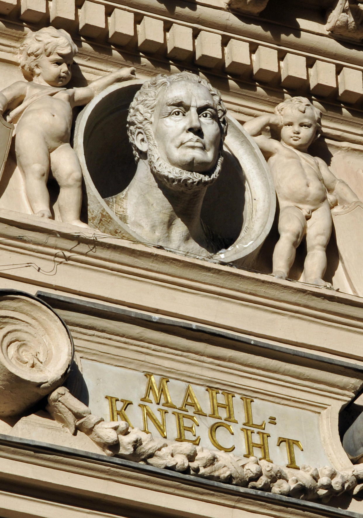 Portrait of Johann Dominik Mahlknecht on the front of Museum Ferdinandeum in Innsbruck by Anton Spagnoli 1884 ca.